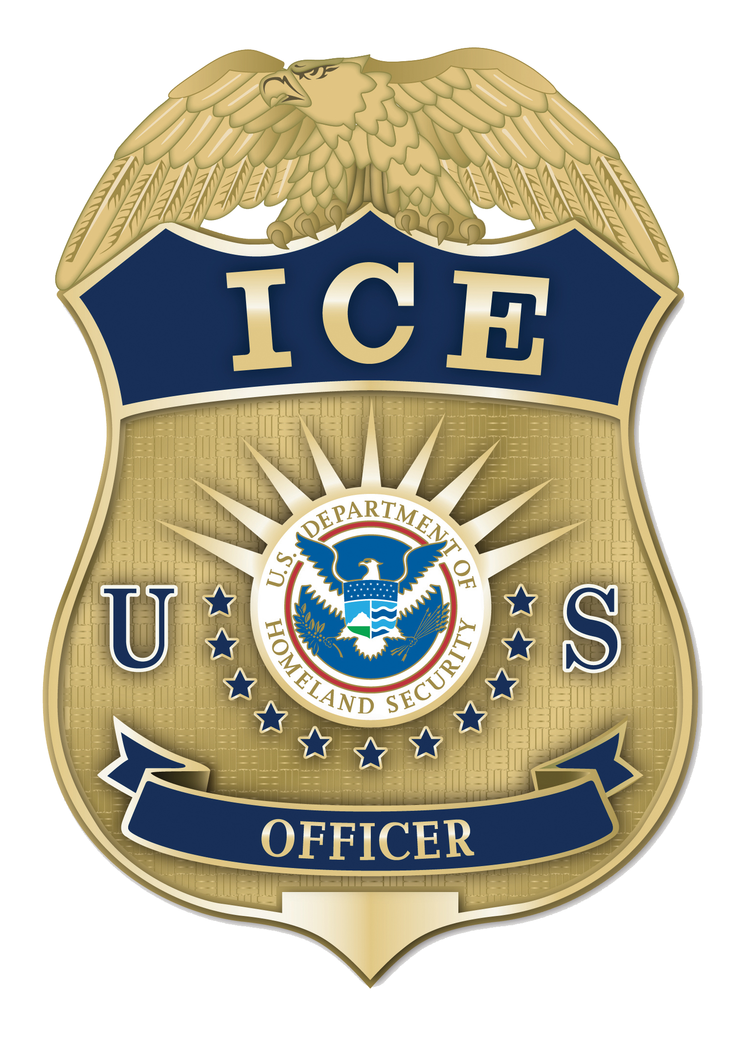 Artwork of a badge of an Immigration and Customs Enforcement - Enforcement and Removal Operations Officer